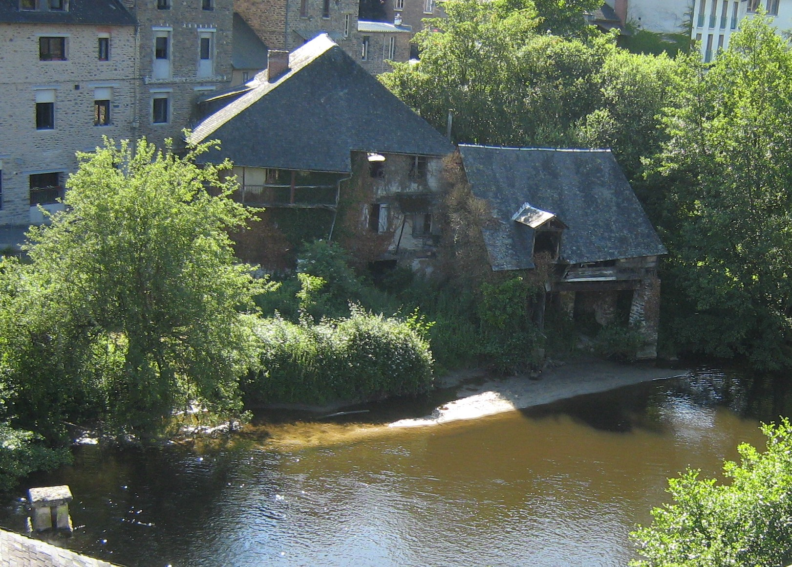 uzerche